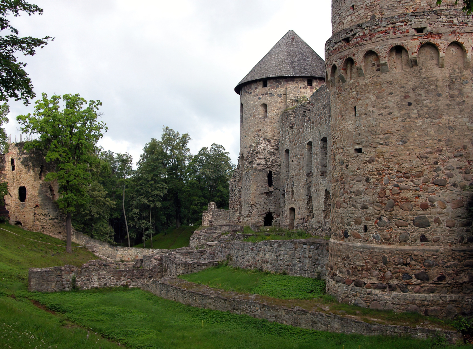 Cēsis, Latvia: Castle.